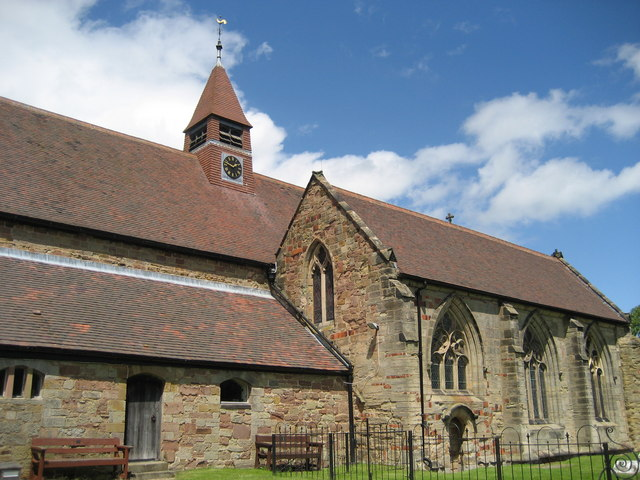 Church of Our Lady, Merevale, Warwickshire: built as a chapel at the gate of a Cistercian Abbey